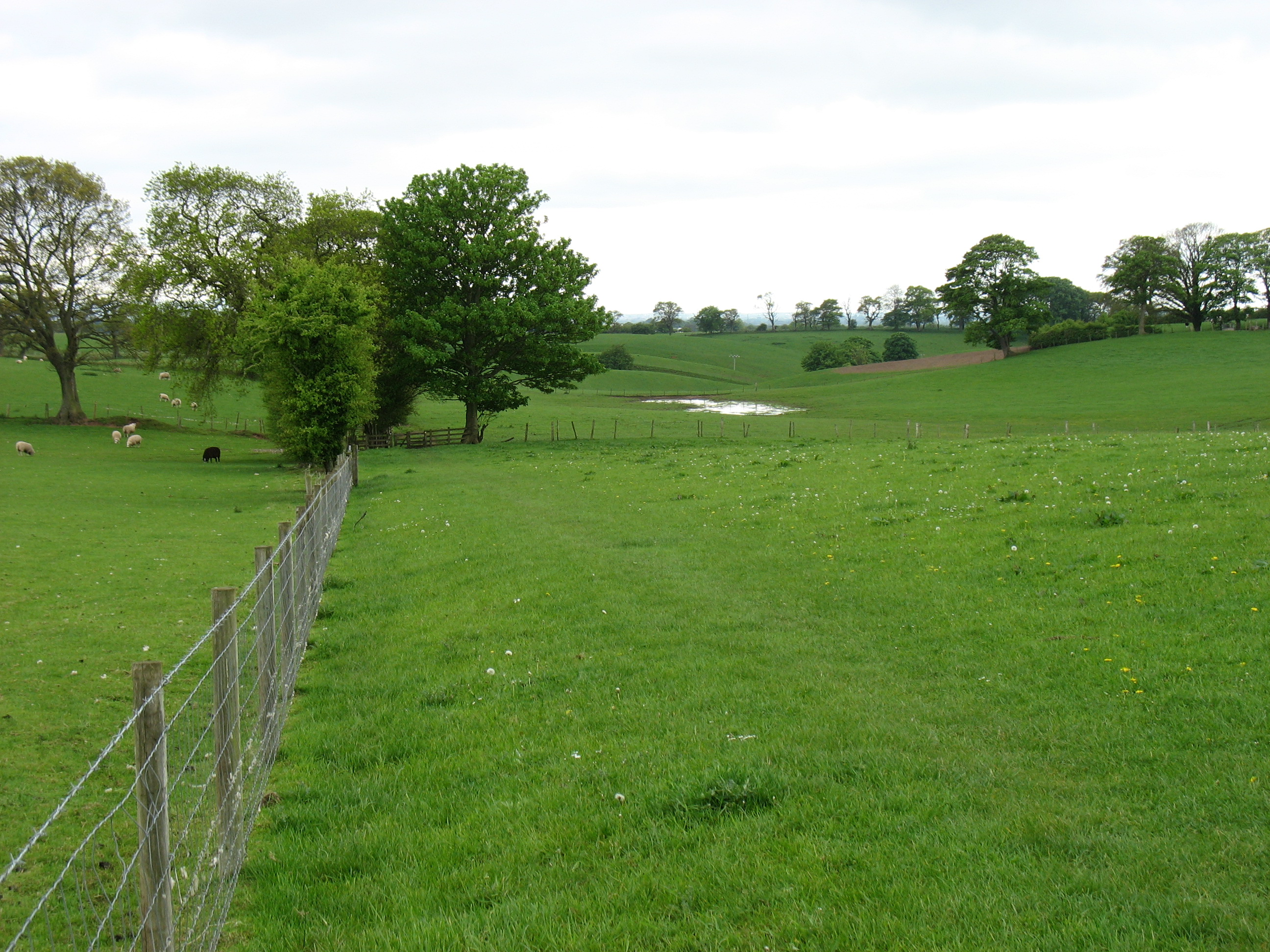 The Hadrian's Wall Path leaving Newtown